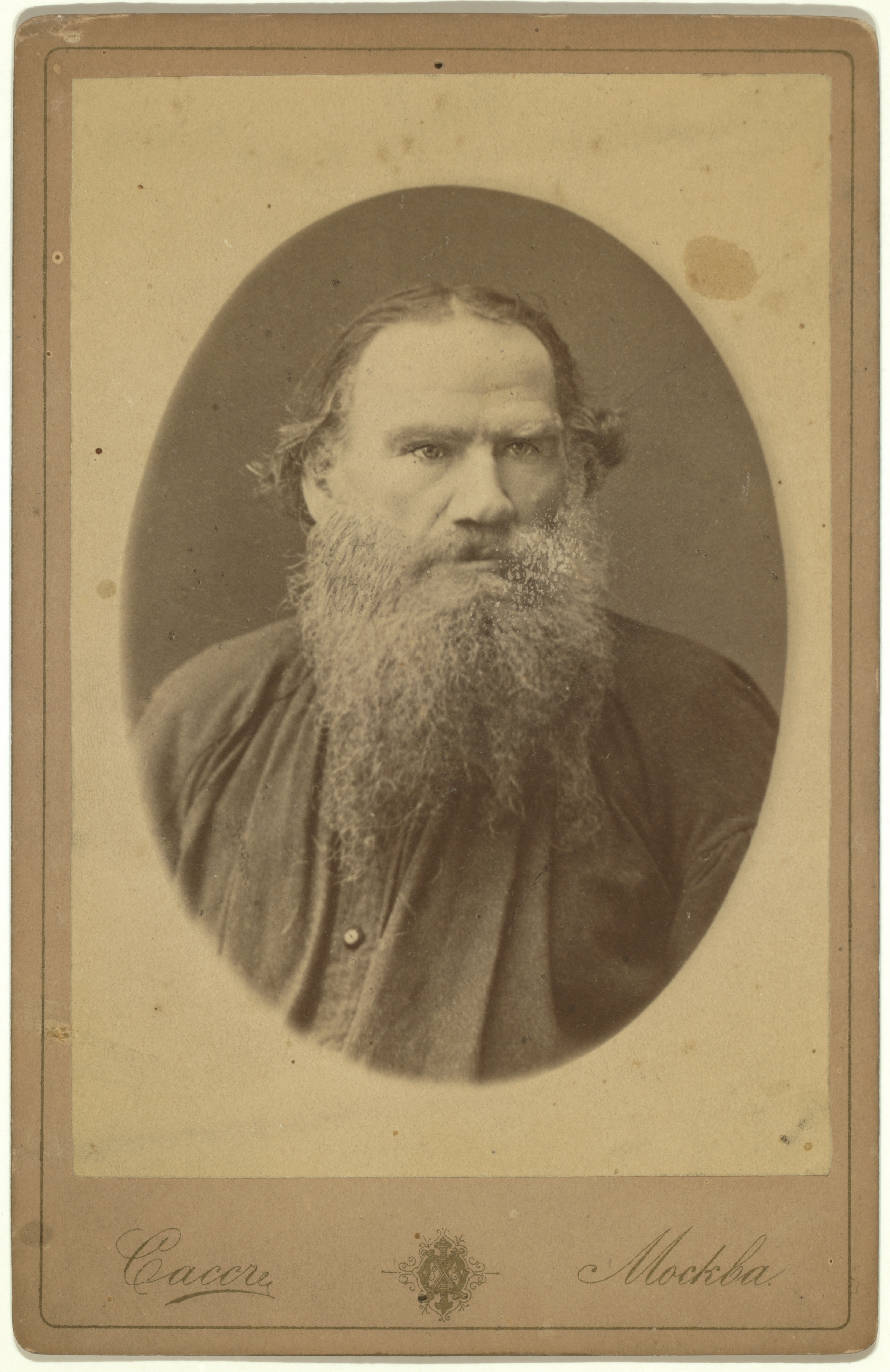 CREATED/PUBLISHED: [between 1880 and 1886]; REPOSITORY: Library of Congress Prints and Photographs Division Washington, D.C. 20540 USA.